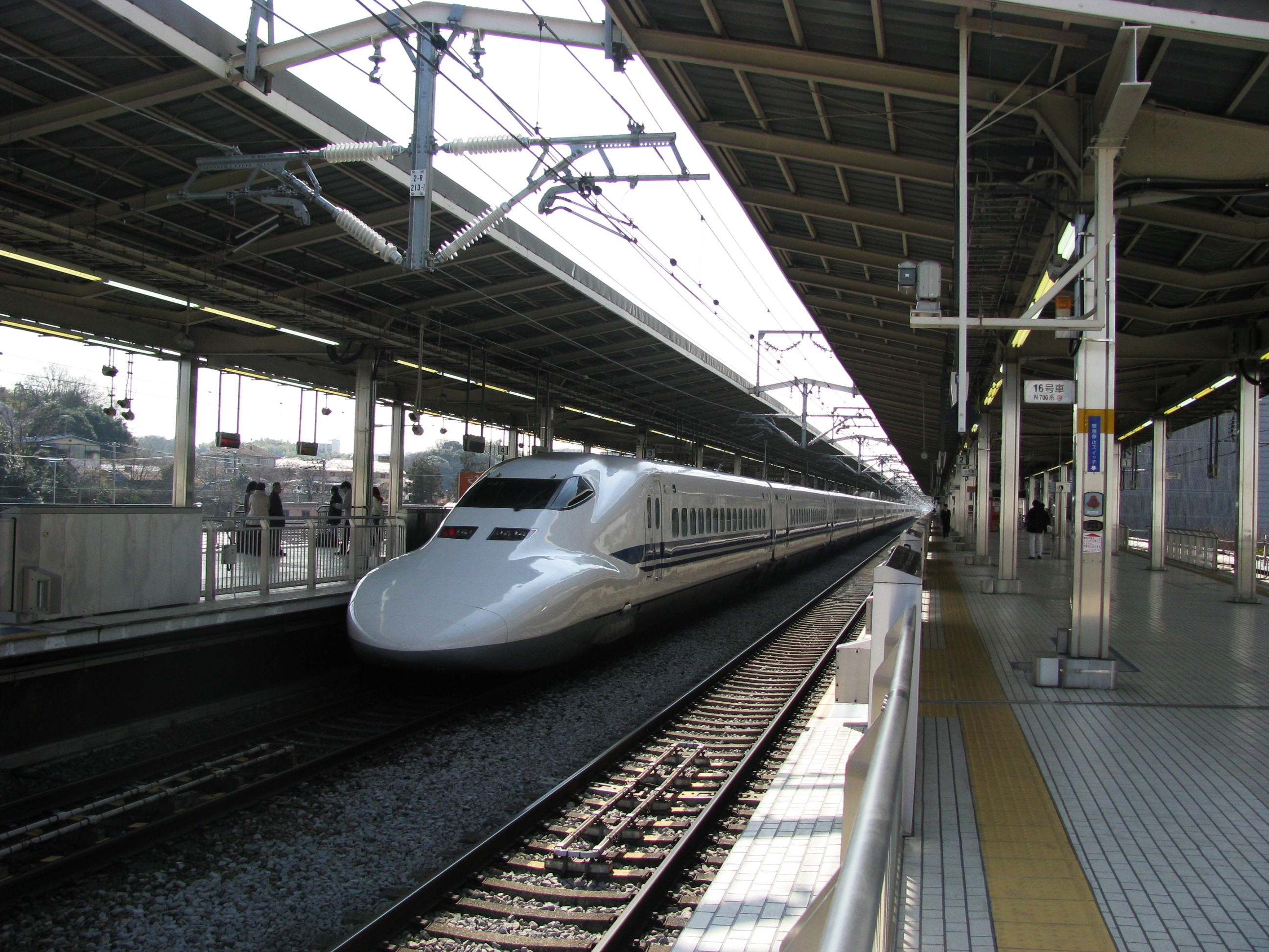 The 700 series Hikari of JR Central Tōkaidō Shinkansen. This place is Shin-Yokohama Station in Kōhoku-ku, Yokohama Kanagawa Prefecture, Japan.